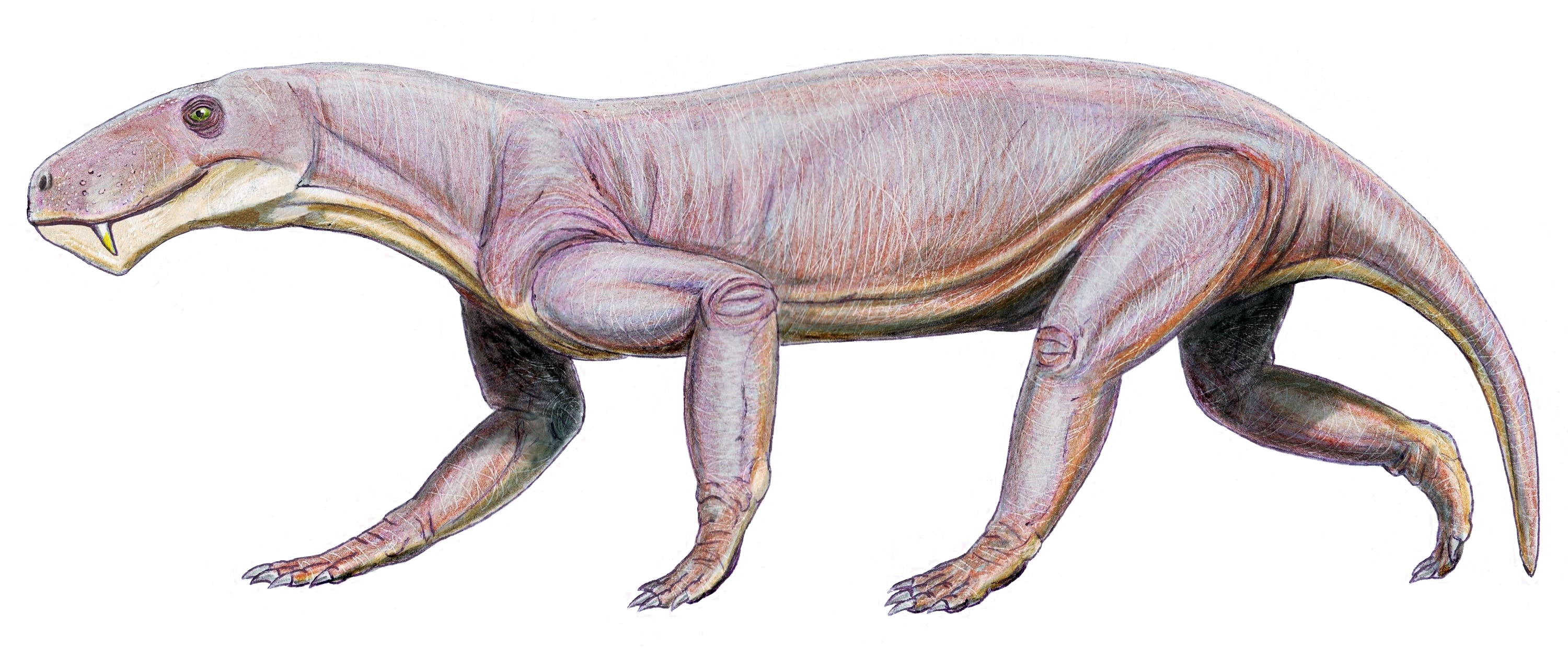 Gorgonopsian Lycaenops ornatus from Late Permian of South Africa